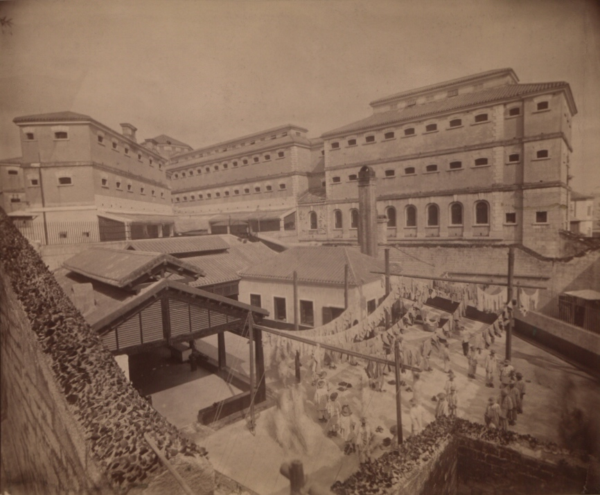 Victoria Gaol Hong Kong From The East End Of Chancery Lane. Location: Hong Kong, Hong Kong Our Catalogue Reference: Part of CO 1069/446. This image is part of the Colonial Office photographic collection held at The National Archives. Feel free to share it within the spirit of the Commons. Please use the comments section below the pictures to share any information you have about the people, places or events shown. We have attempted to provide place information for the images automatically but our software may not have found the correct location. For high quality reproductions of any item from our collection please contact our image library